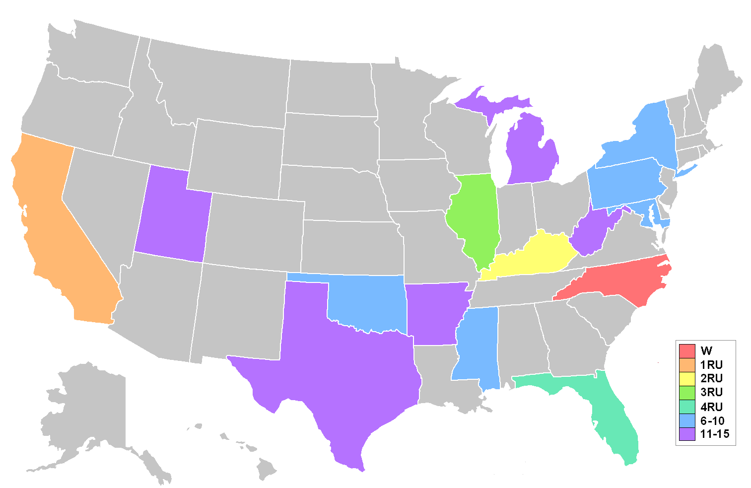 Map showing placements at the Miss USA 2005 pageant. Key on graphic shows colour coding for break down of placements.